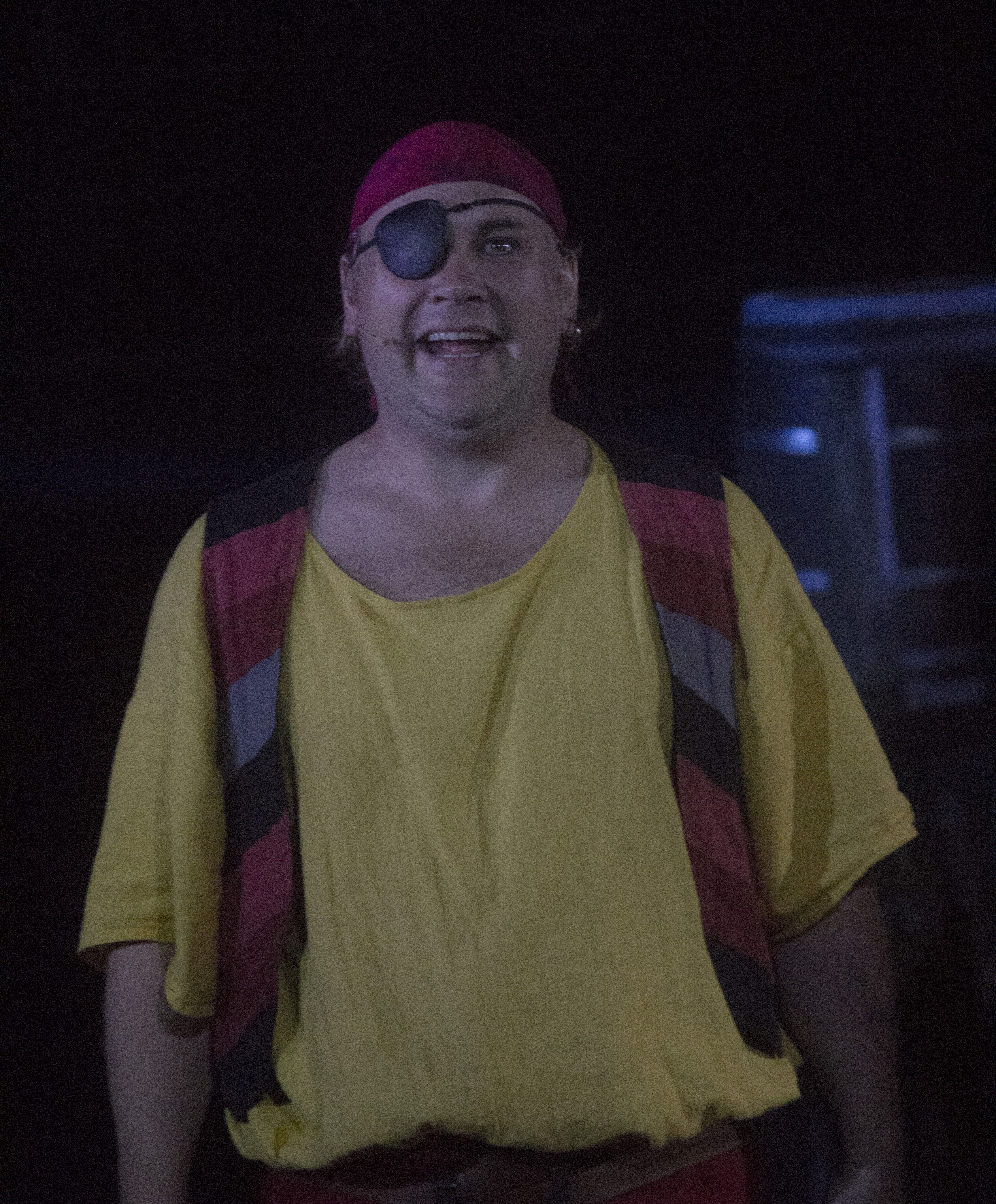 Kai Kenneth Hanson as Pelle Pirat in Kaptein Sabeltann og Den Forheksede Øya